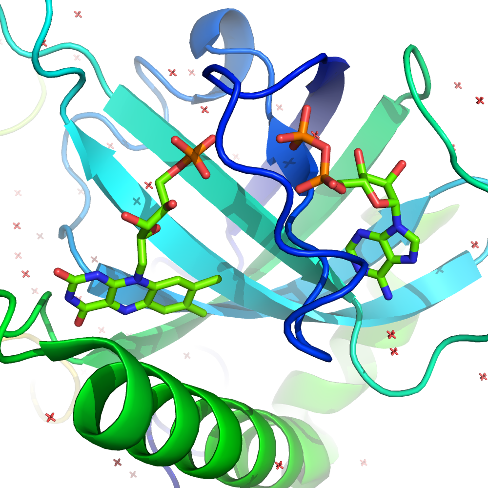 made with pymol, PDB ID: 1N07